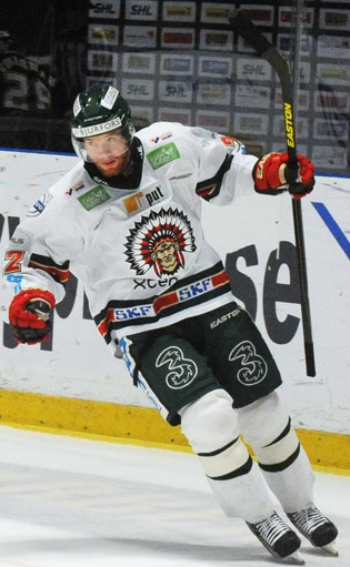 Swedish ice hockey player Robin Figren in 2013. Cropped from the original file.